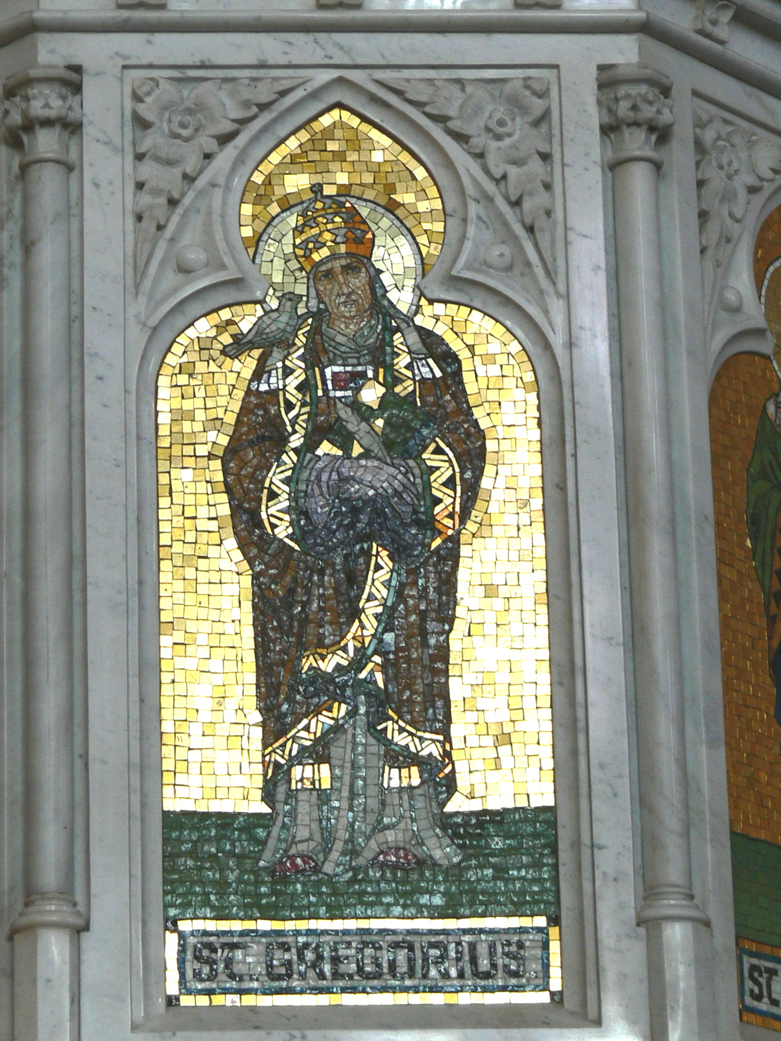 Aigen parish church. Pulpit ( 1910 ): Gregory the Great in mosaics.